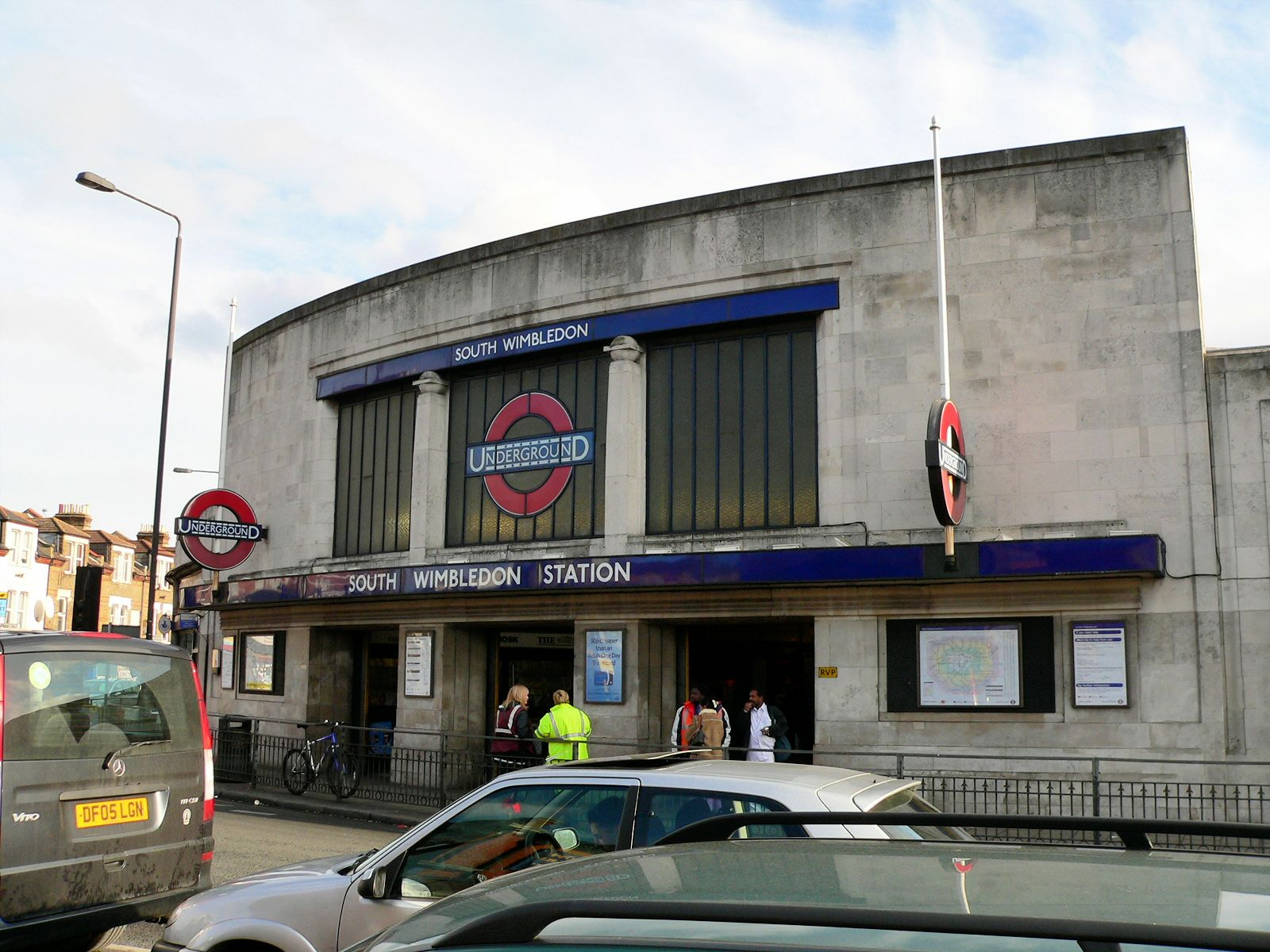 The surface building at South Wimbledon tube station on the Northern Line. Of all the London Underground stations, only Morden, also on the Northern Line, is further south.